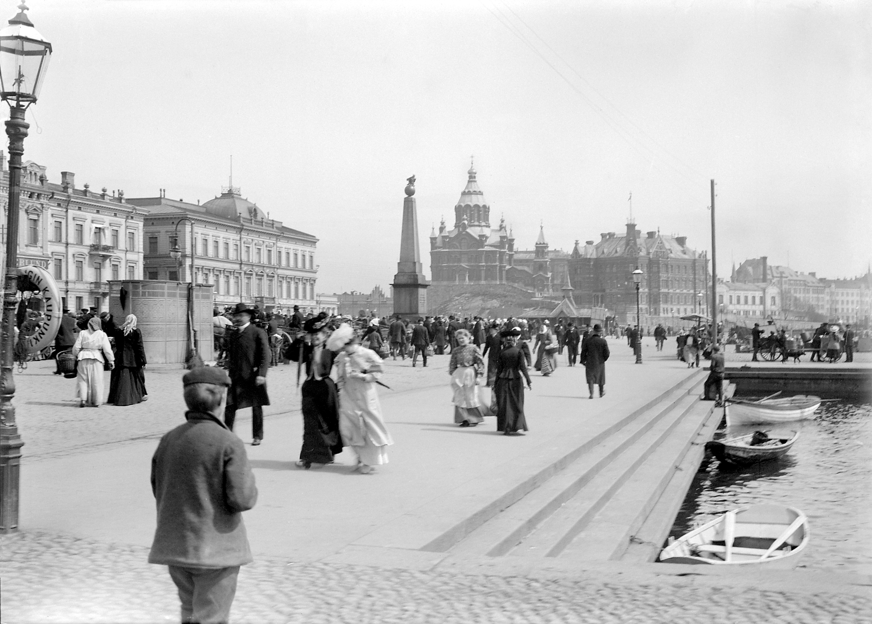 Salutorget med Uspenskijkatedralen och Norrménska huset i bakgrunden. Foto Gustaf Sandberg. sls1849_347 Wikipedia: Ur boken Helsingfors i ord och bild Utgiven av Svenska litteratursällskapet i Finland, 2012